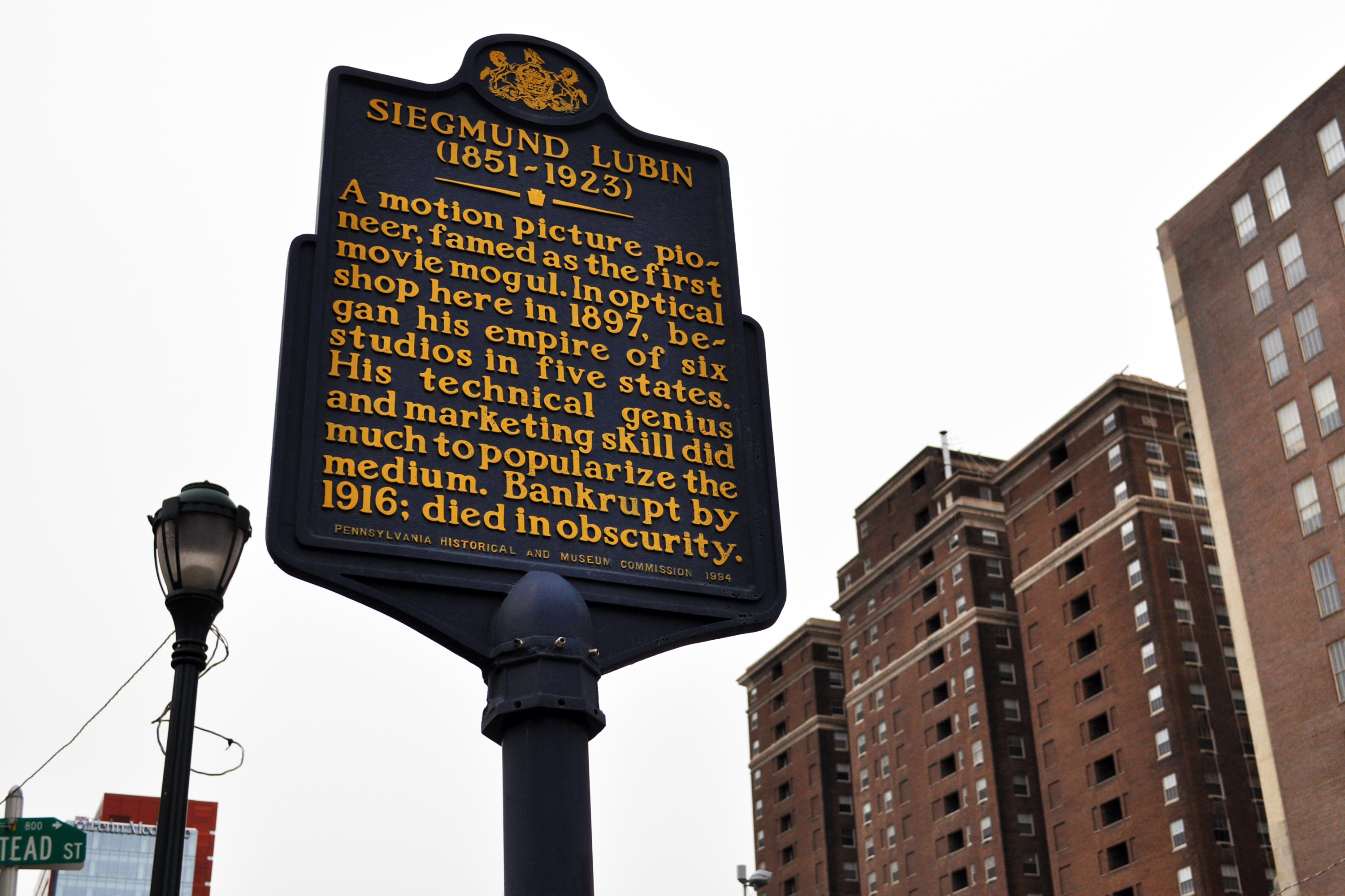 Siegmund Lubin (1851-1923). A motion picture pioneer, famed as the first movie mogul. In optical shop here in 1897, began his empire of six studios in five states. His technical genius and marketing skill did much to popularize the medium. Bankrupt by 1916; died in obscurity. (Historical Marker at 21 S 8th St Philadelphia PA - Pennsylvania Historical & Museum Commission 1994)